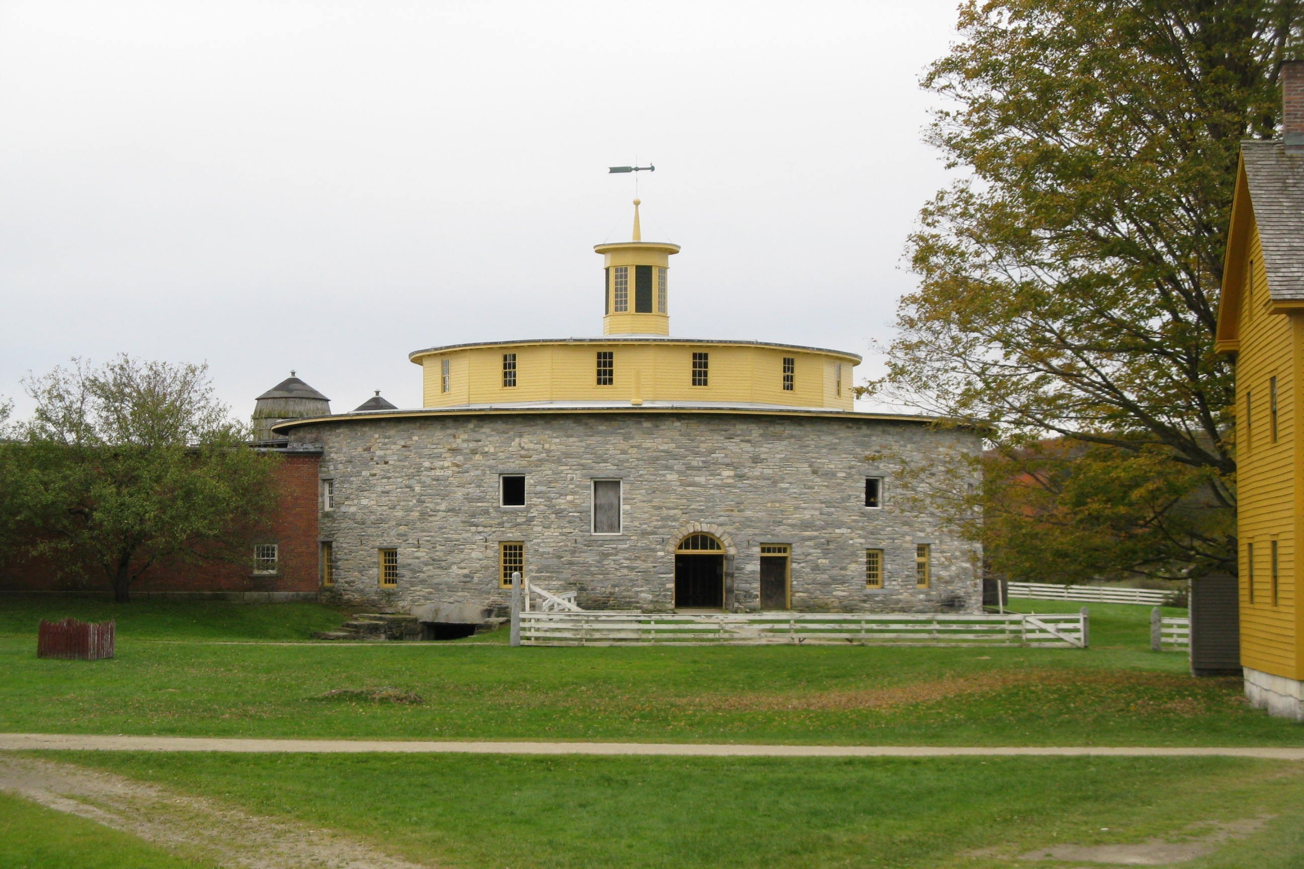 Round Stone Barn, Hancock Shaker Village Massachusetts - 2009